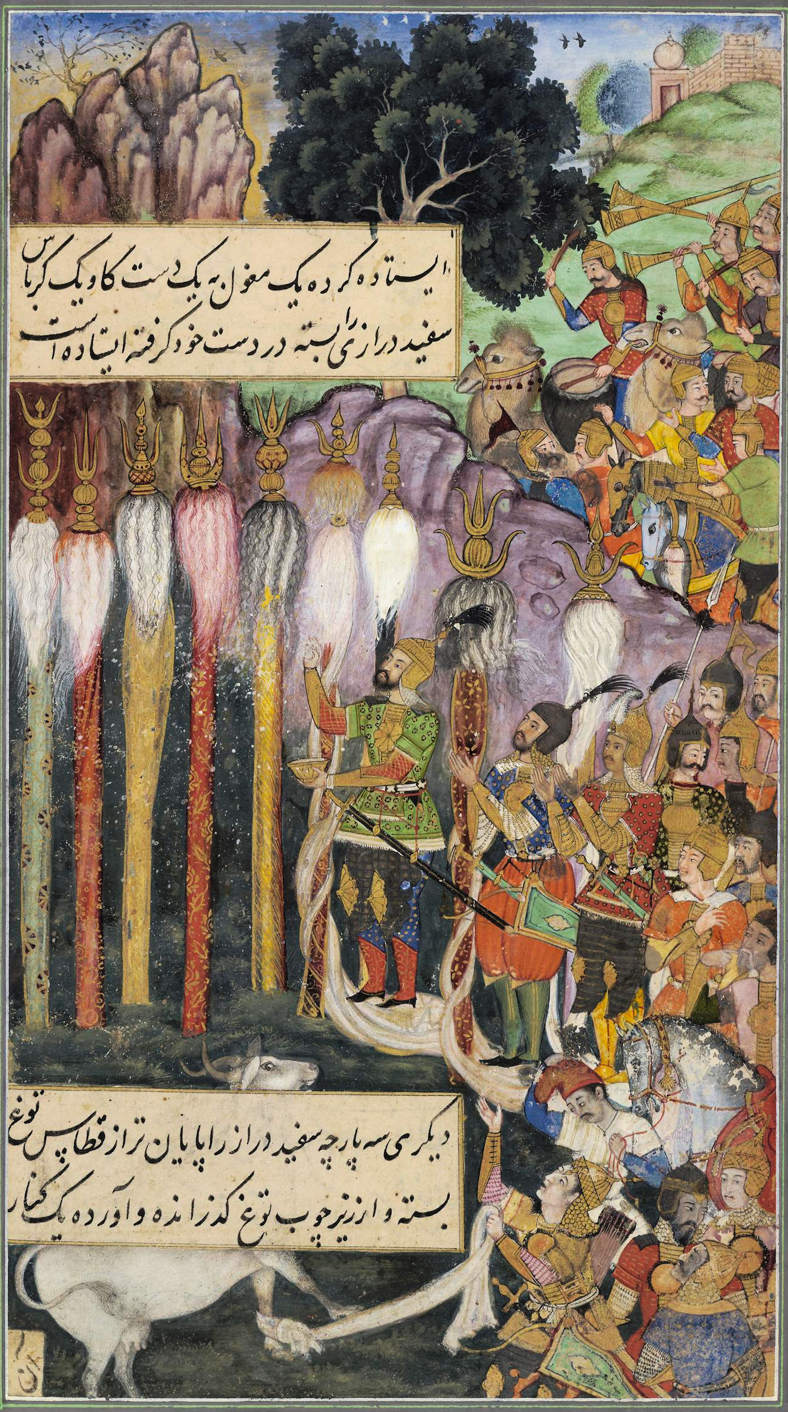 Painting depicting an epic ceremonial event from the Baburnameh. Babur and his army salute the standards to the right of the image, while to the left stand the yak-tail standards fermented with mare's milk (kumis). Members of the royal military band, mounted on camels, blow trumpets and beat large kettle drums at the upper right. Two isolated boxes of text appear on the left, each with two lines of text. Painted in opaque watercolour and ink on paper. This right hand page of a double page composition portrays the first Mughal emperor, Babur, performing a ceremony inherited from the Mongols. Annually the Mughal emperor sprinkled kumis, fermented mare's milk, on the yak tails of the standards. The Mughal emperor Baur followed the annual Mongol custom of anointing yak-tail standards with fermented mare's milk (kumis) in the presence of his army. Members of the royal military band (naqqara-khaneh) blow trumpets and beat large kettle drums at the upper right. The musicians are mounted on camels,so that they will sit higher than the army and be heard. Called naqqara, the drums were made of metal covered with skin held in place by laces. This illustration is the right page of a double page composition from the 'Victoria and Albert' Baburnama of which three pages are included in Princes, Poets, & Paladins (cat. nos. 82-4).